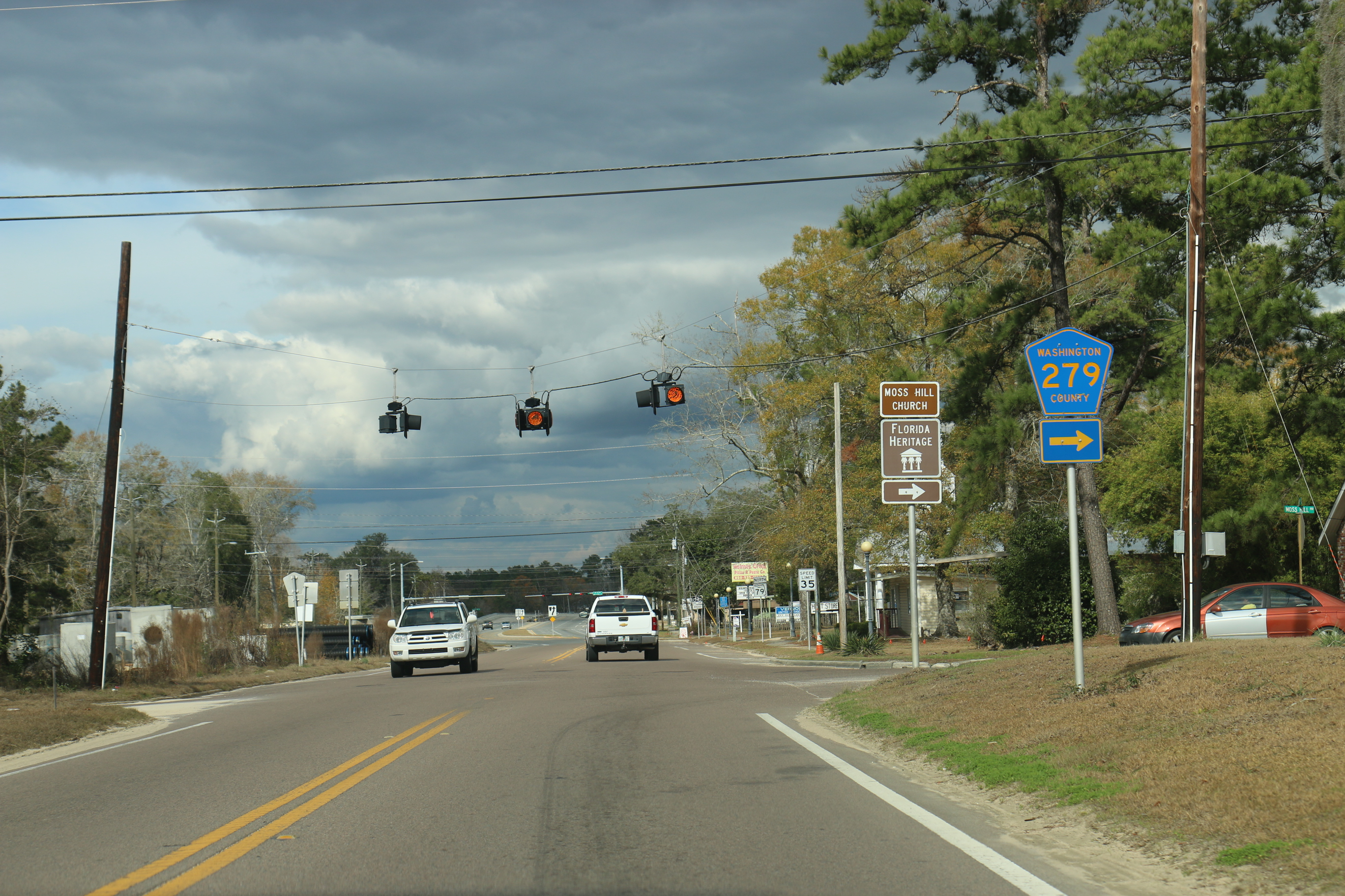 SR79 in Vernon, Florida.